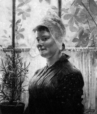 Artist: Carl Jung Title: "Junge Frau am Fenster"